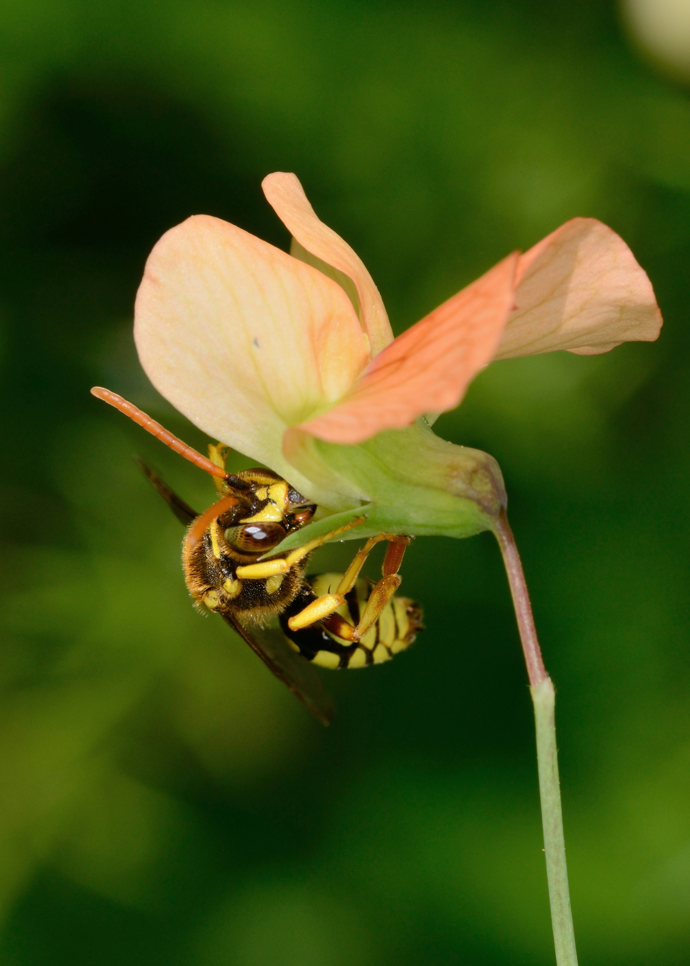 Nomada limassolica Mavromoustakis 1955 (Det. Maximilian Schwarz 2015), female foraging on Lathyrus sp., Mount Carmel, Israel, March 21, 2014.